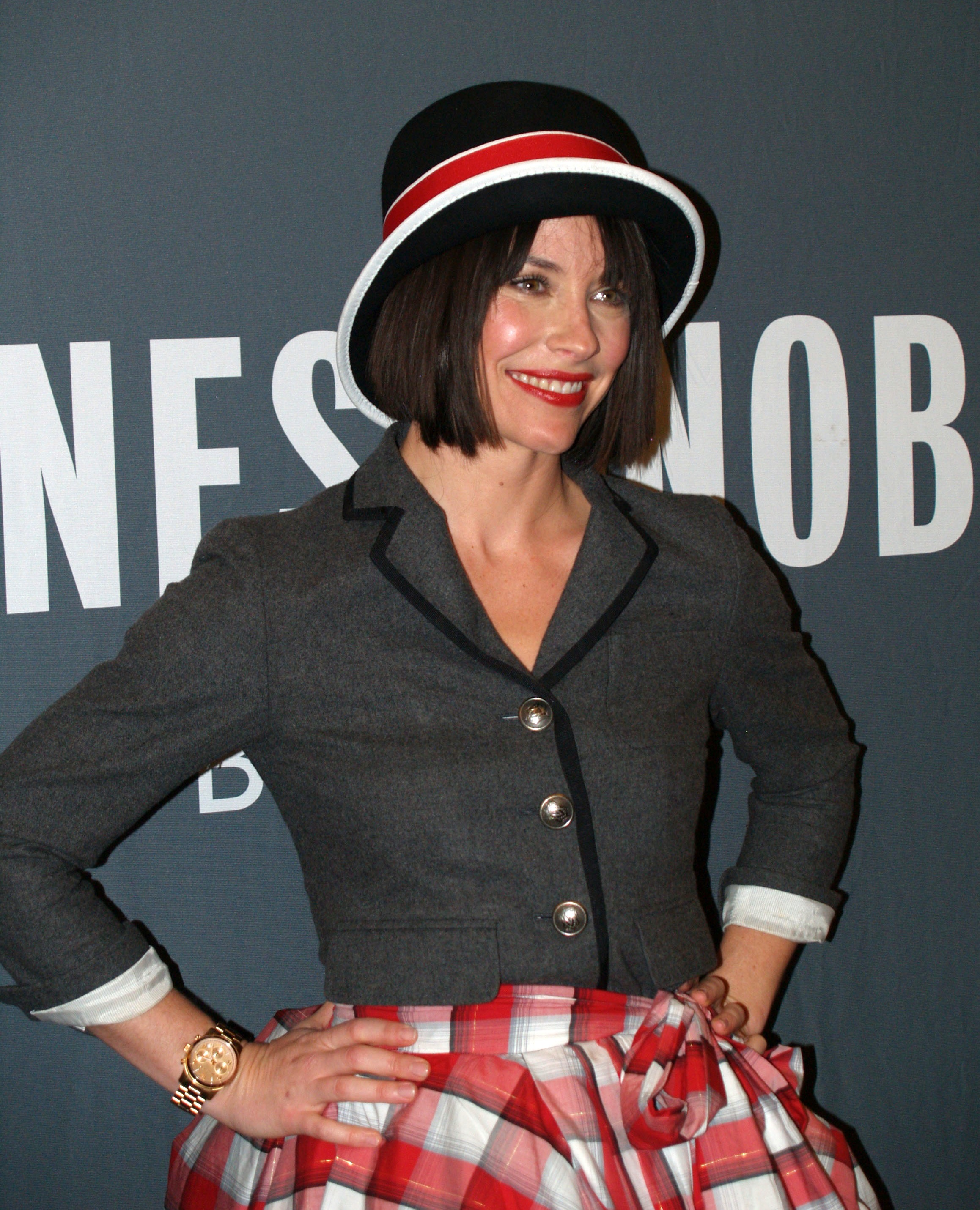 Actress Evangeline Lilly at the Barnes & Noble in Tribeca, Manhattan for a November 17, 2014 signing of the first volume of her children's book, The Squickerwonkers. This photo was created by Luigi Novi. It is not in the public domain, and use of this file outside of the licensing terms is a copyright violation.